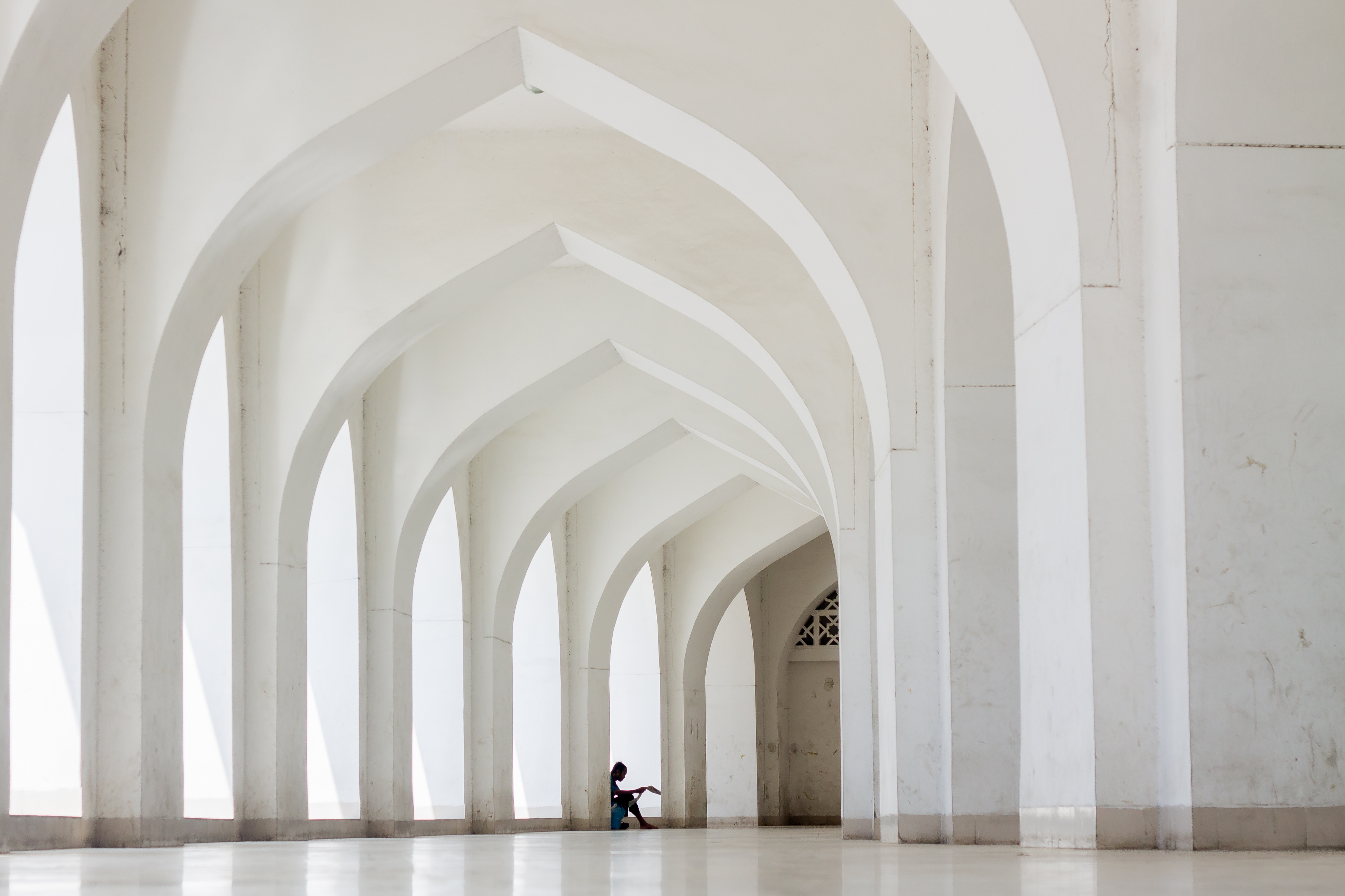 Inside view of Baitul Mukarram National Mosque, Dhaka, Bangladesh.